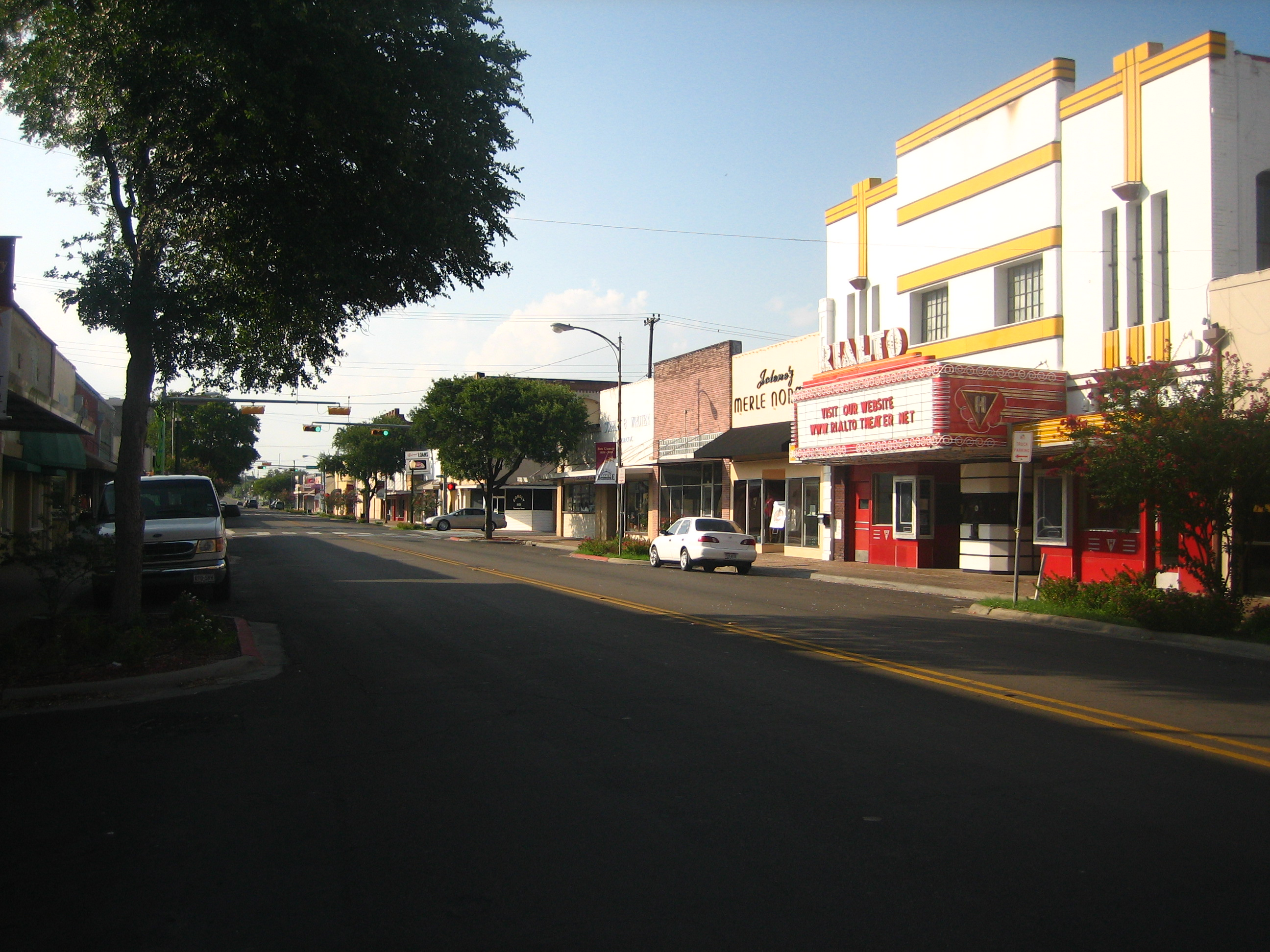 100 North block of Washington Street, Beeville, Texas. At right, the Rialto Theater.